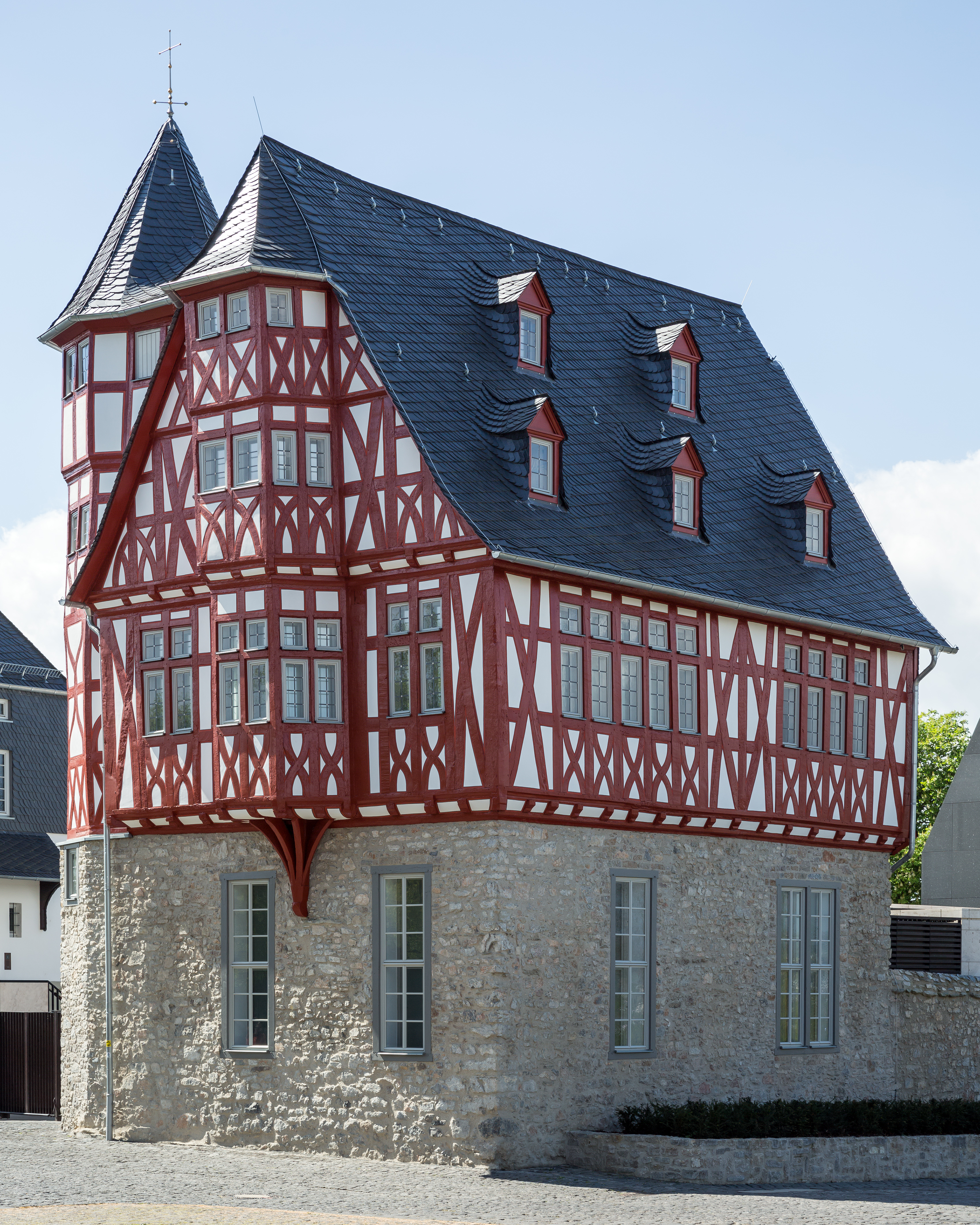 Limburg an der Lahn: Domplatz (Cathedral Square) 7 as seen from the northeast